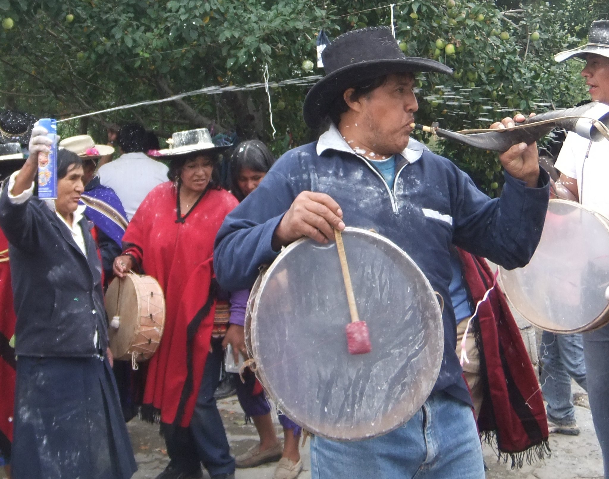 Copleros. Carnival of Quebrada de Humahuaca (at Bárcena), Jujuy, Argentina. Guys with erquencho and espuma.